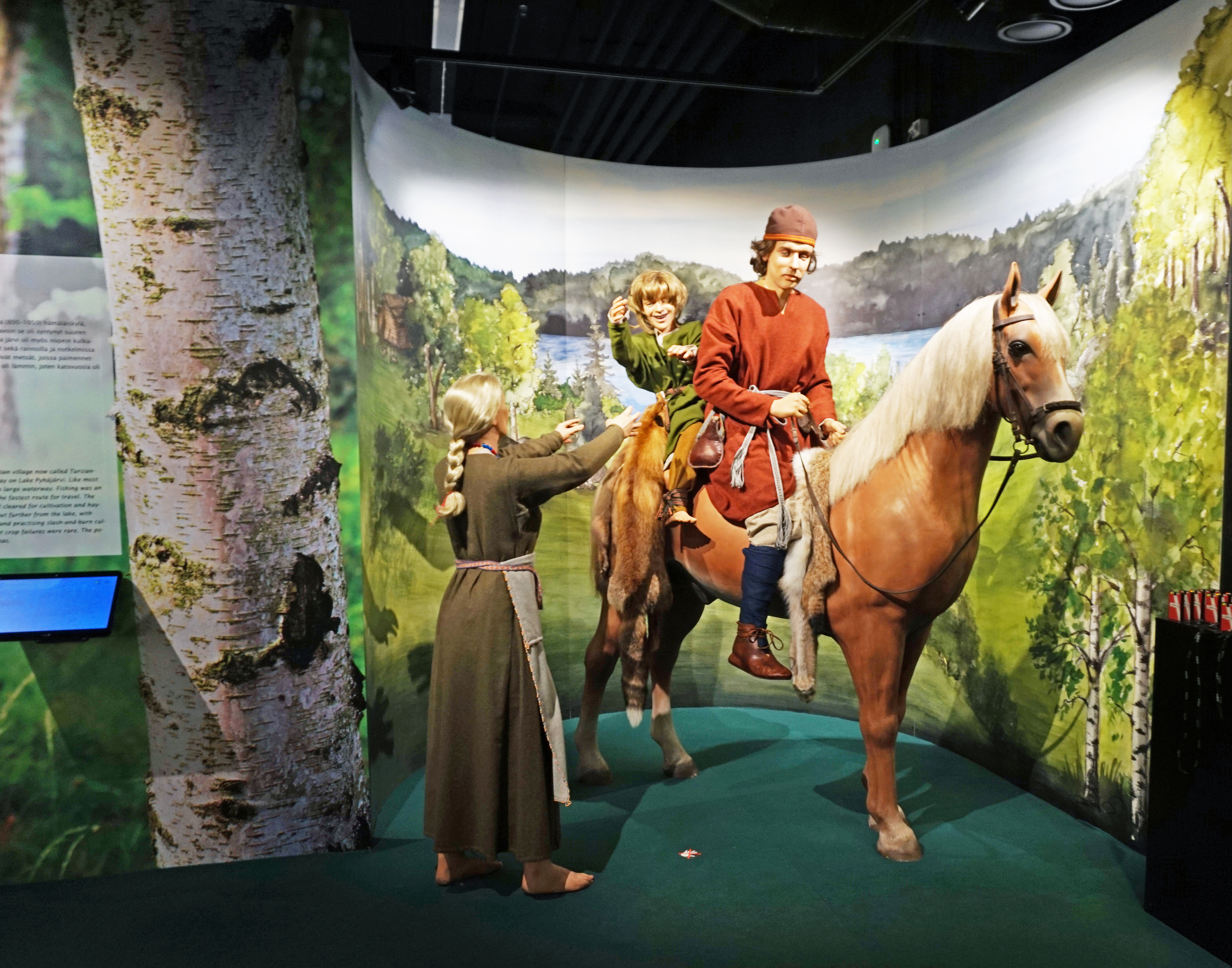 Birckala 1017 exhibition in Vapriikki Museum Center, Tampere.